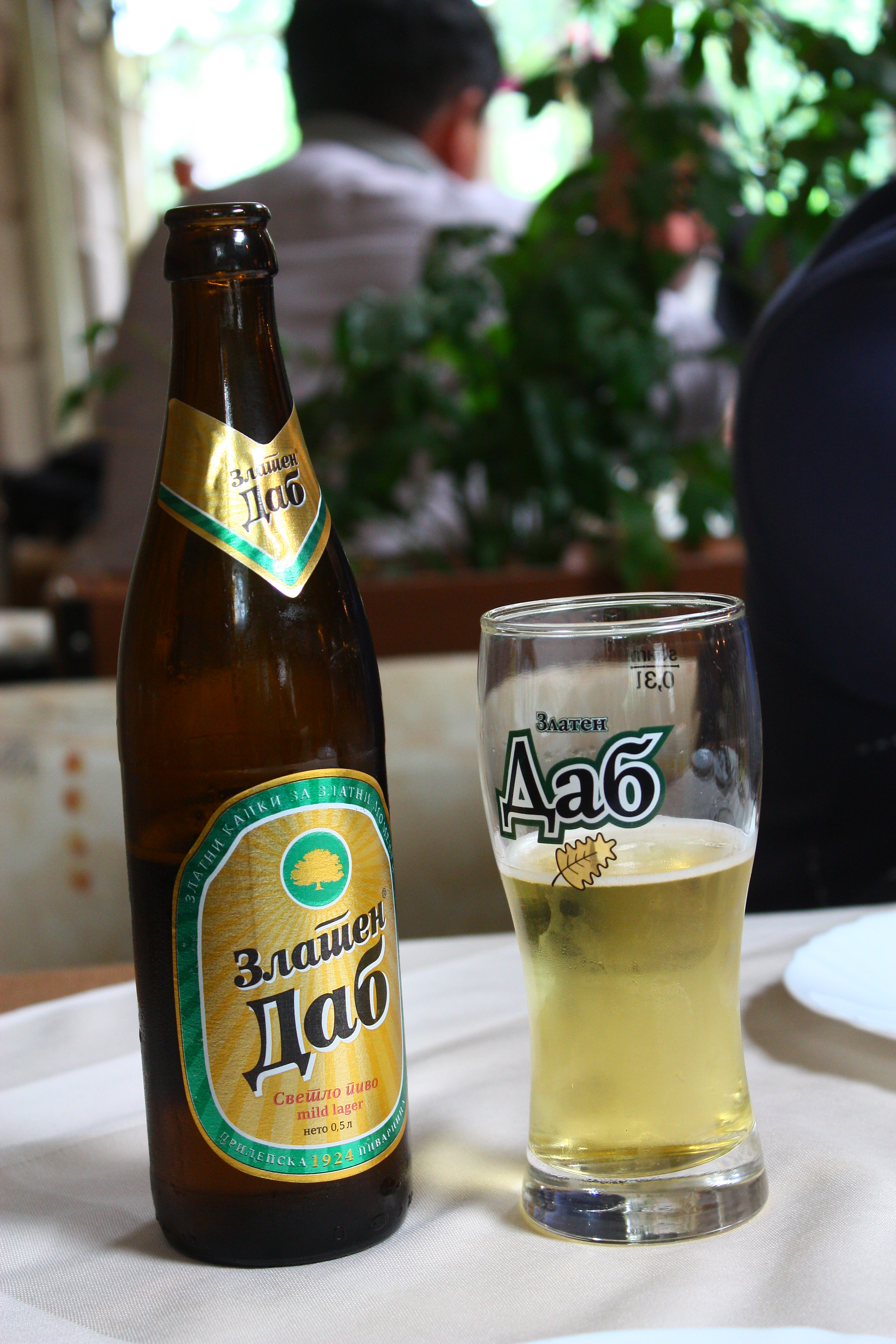 Zlaten Dab, a macedonian beer.